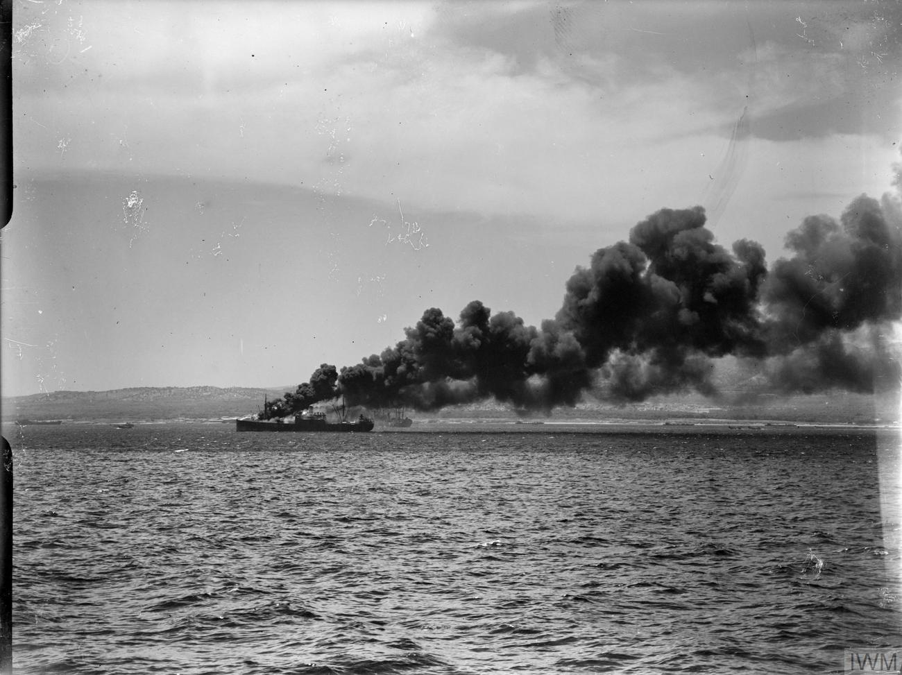 The Royal Navy during the Second World War Four miles south of Syracuse a small ammunition supply ship, hit by enemy bombs, can be seen in the distance as she blazes near the landing beach during the invasion of Sicily.